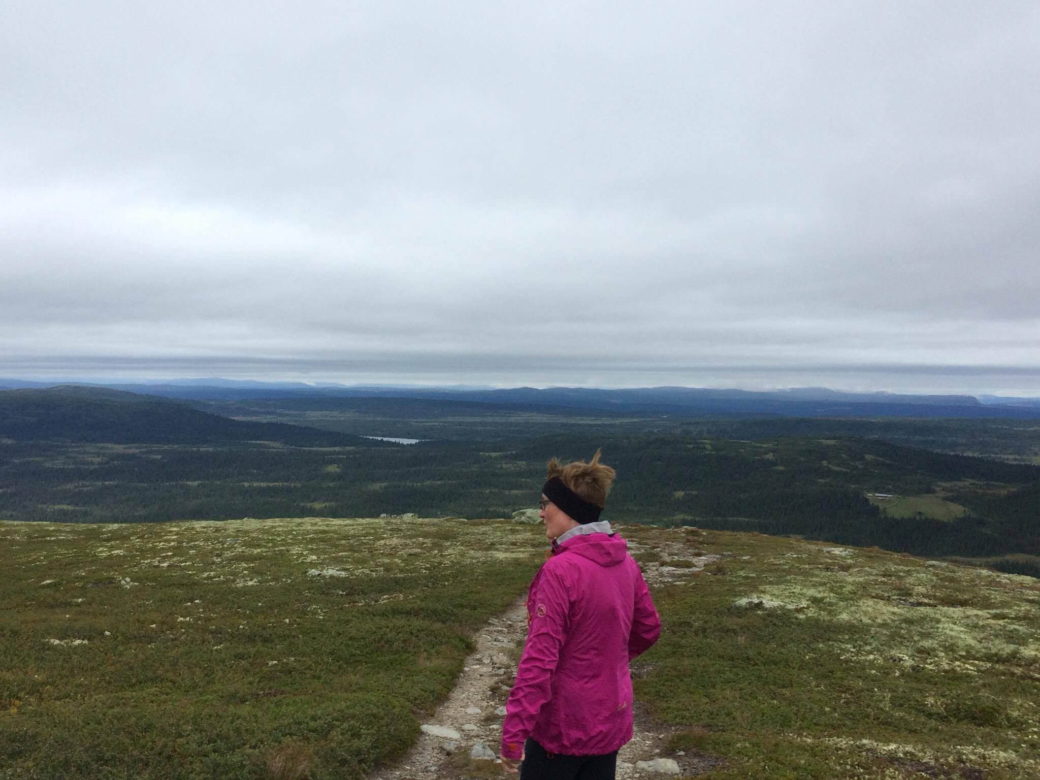 A view of Langsua National Park, Oppland, Norway from the peak Ormtjernkampen (1128 masl)